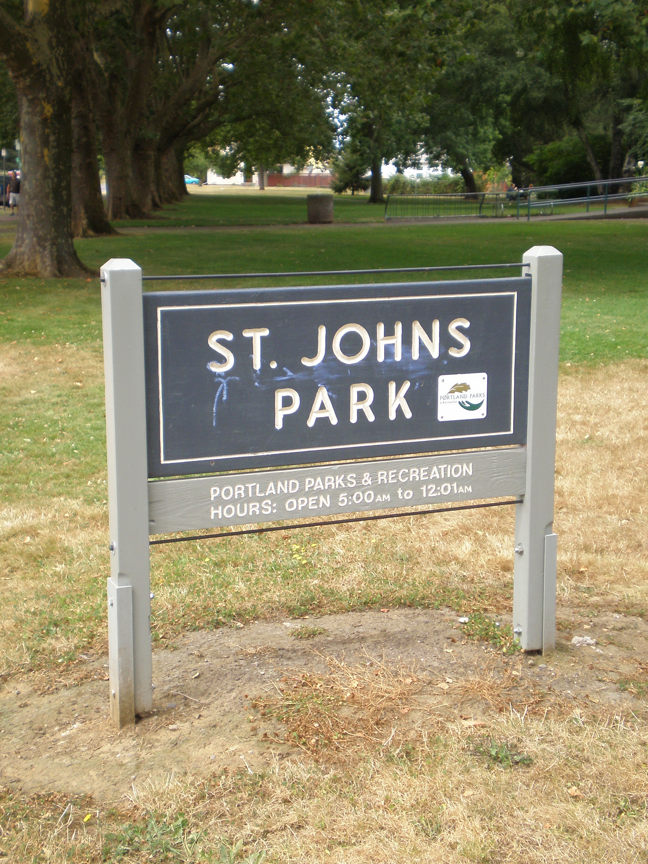 Sign for St. Johns Park in St. Johns, Portland, Oregon